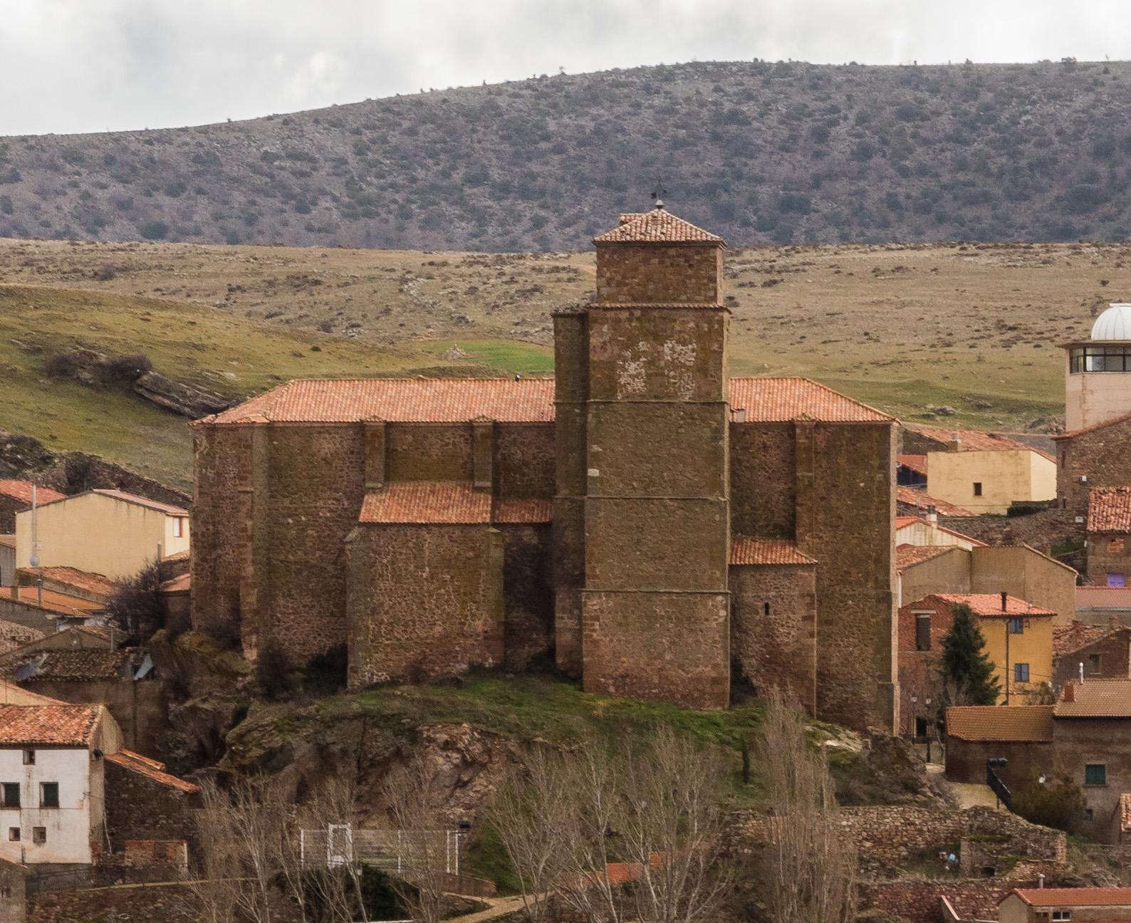 Borobia, Soria, Spain